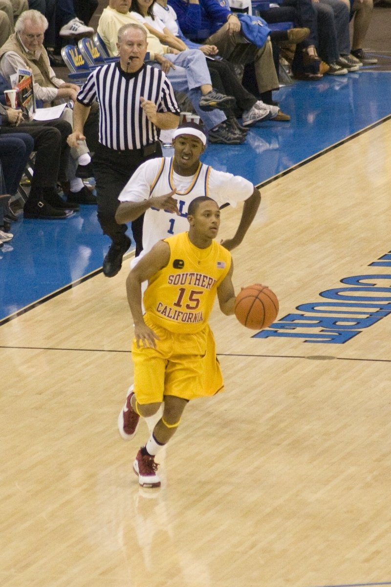 Romeo Miller, aka Percy Miller, Jr., of Southern California. Followed by Malcolm Lee of UCLA.